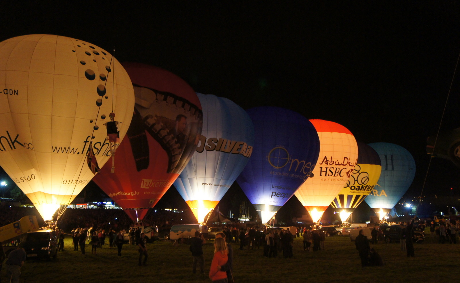 night glow 2011 BIBF (Bristol international Balloon fiesta)